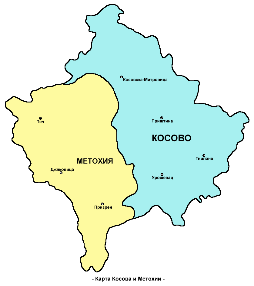 Map of geographical regions of Kosovo - Kosovo (proper) and Metohija - in Russian language.